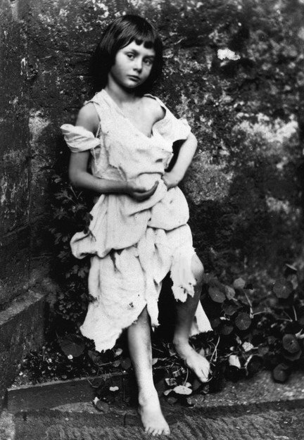 Alice Liddell as a beggar-maid (from the story of Cophetua). Supposed tear hole or ink-blot in photo digitally removed. This was first published in Carroll's biography by his nephew: Collingwood, Stuart Dodgson (1898) The Life and Letters of Lewis Carroll, London: T. Fisher Unwin, pp. p. 80 Retrieved on 22 December 2010.